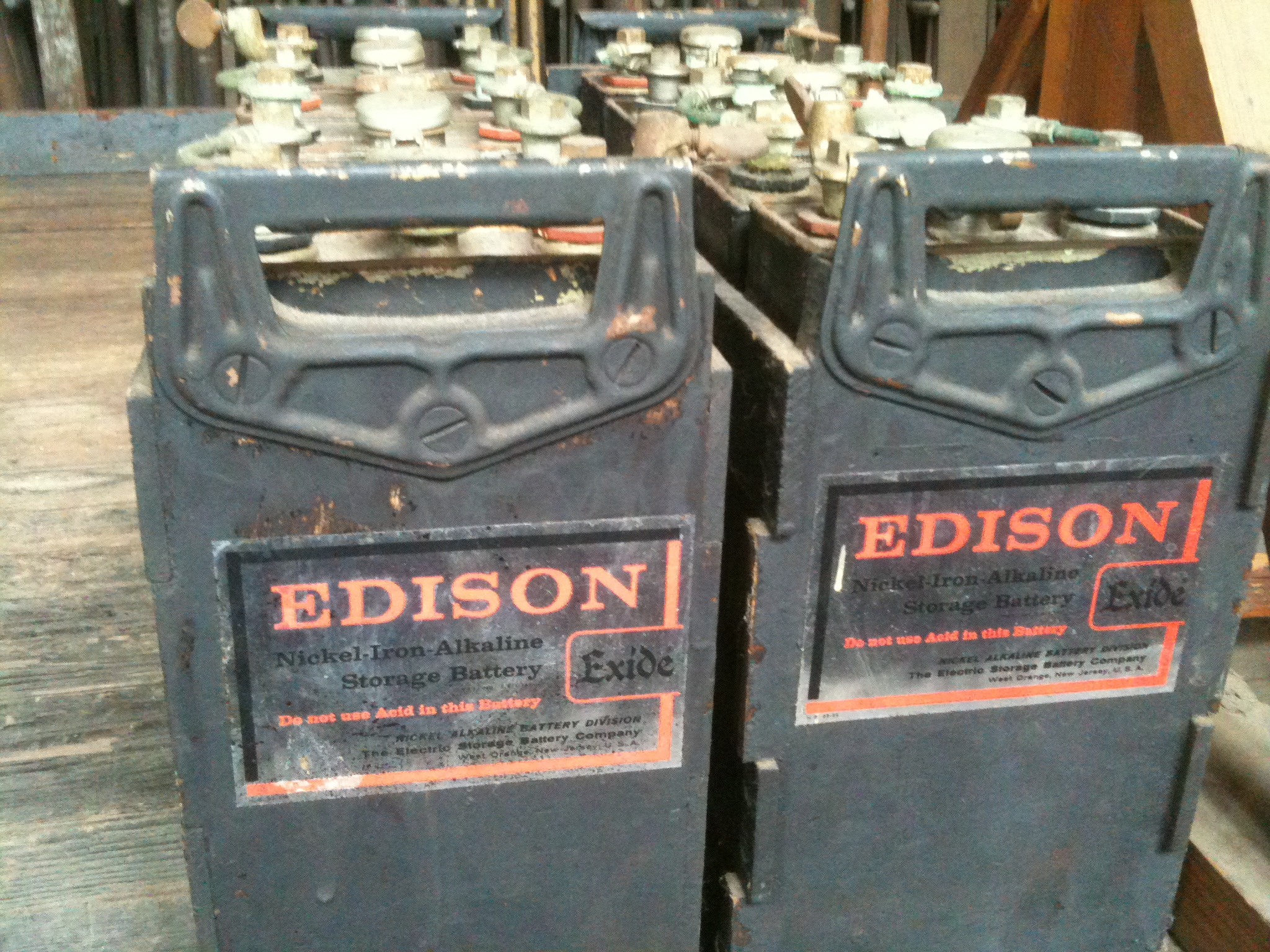 Nickel–iron batteries under the "Exide" brand originally developed in 1901 by Thomas Edison. Exide acquired the Edison Storage Battery Company in 1972 and manufactured this type of batteries until 1975. Photo taken at the Thomas Edison National Historical Park in West Orange, New Jersey.